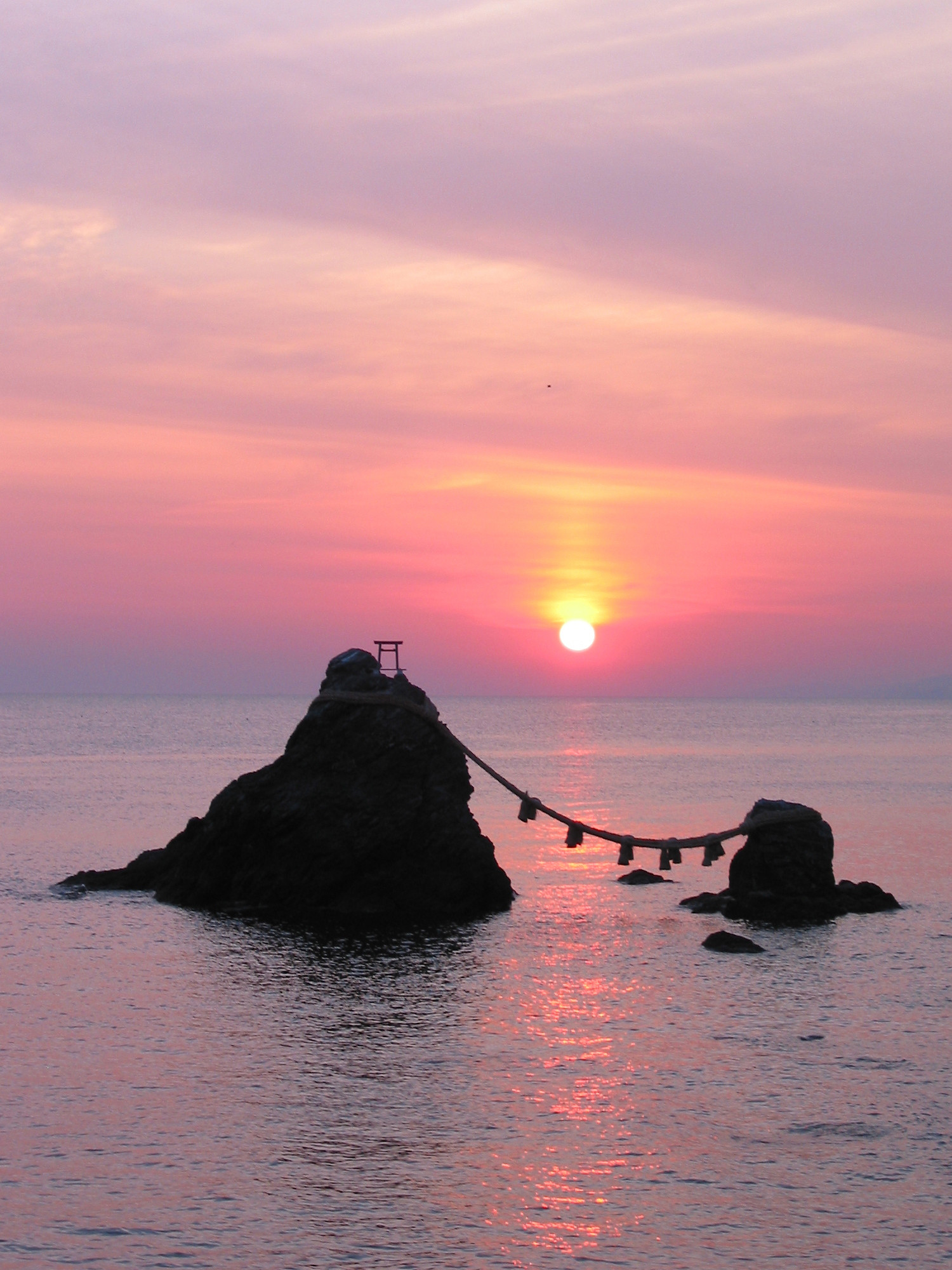 The sunrise of the Wedded Rocks (Meoto Iwa) at the time of summer solstice.Futami Okitama Shrine, E Futami Ise-City Mie-Pref., Japan.